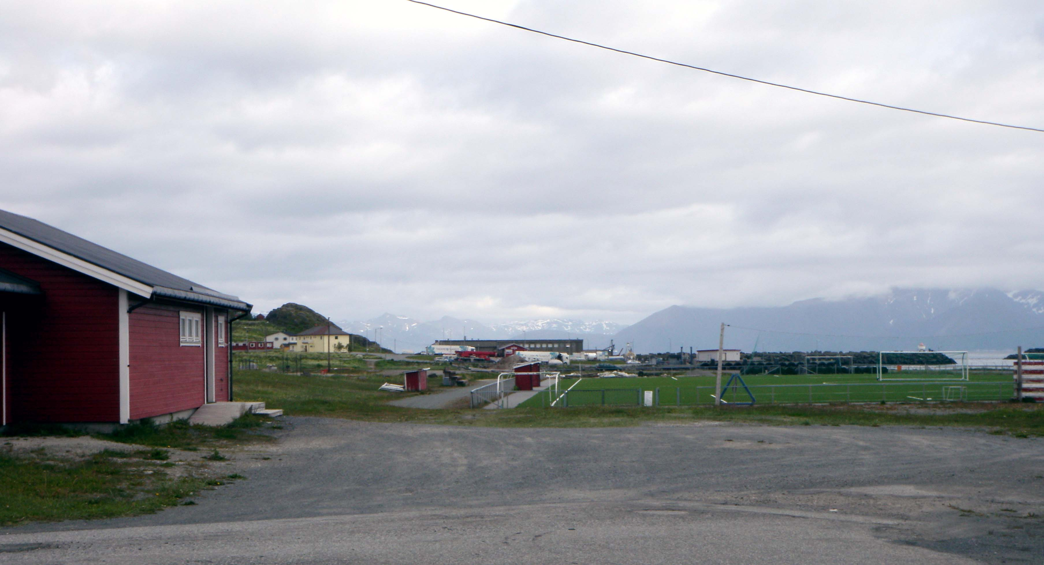 View of Hasvik stadion, home venue of the football club Sørøy Glimt, in Hasvik, Finnmark, Norway. Sørøy Glimt's club house on the left.